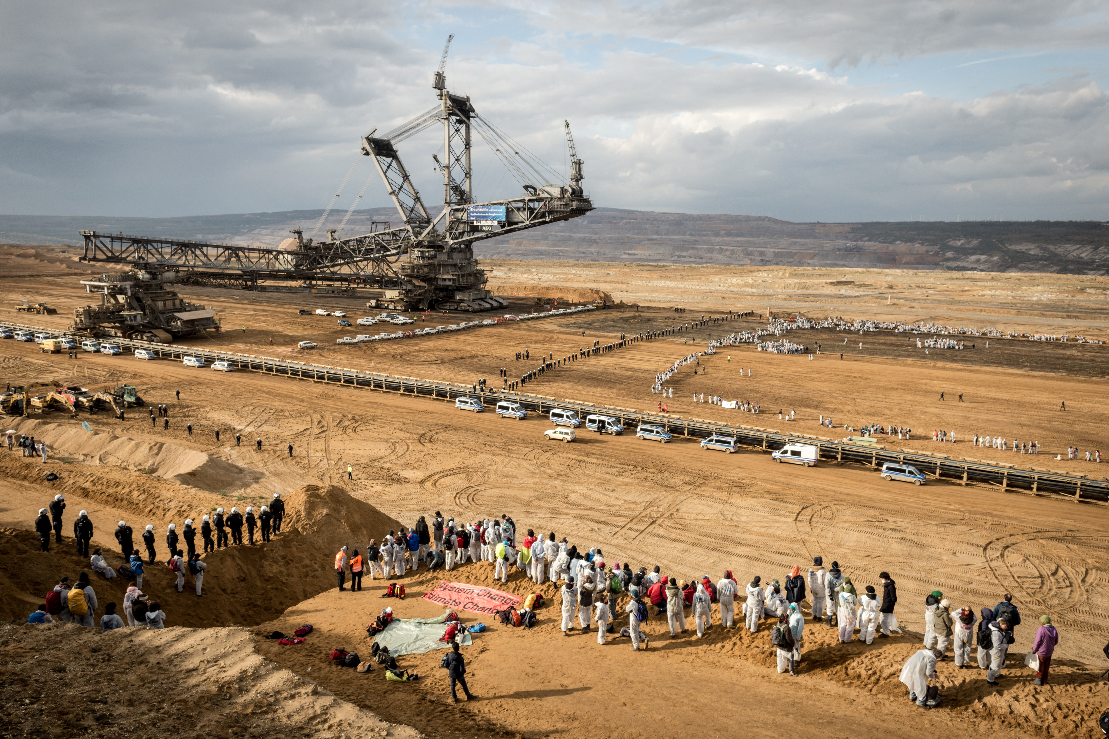 On November 5, 2017, at the beginning of COP 23, the activist organization Attac and the alliance Ende Gelände demonstrated against lignite-fired power generation in the Rhenish lignite mining district not far from Bonn. After the rally with several thousand people, about 600 people invaded the open pit Hambach. The operator had to stop two bucket-wheel excavators. copyright: Christian Bock